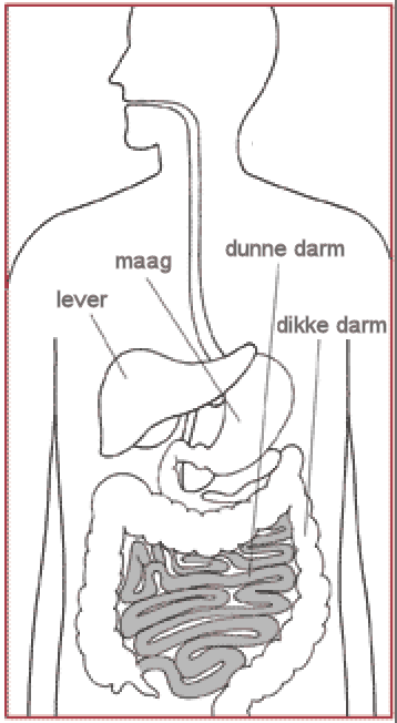 dutch txt